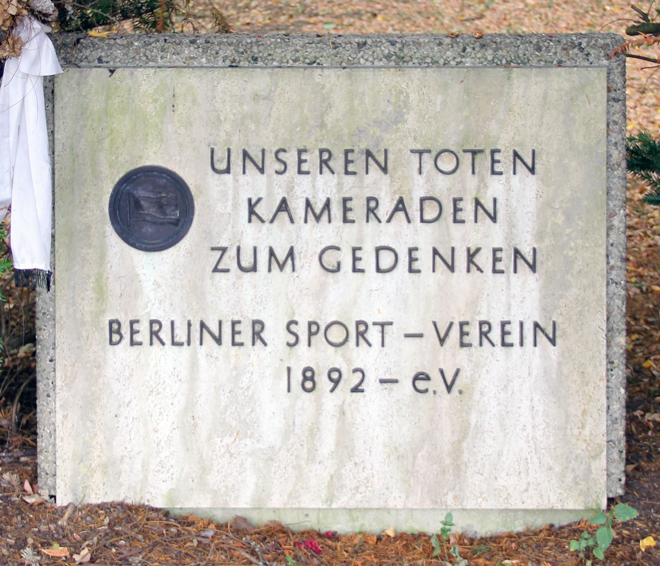 Memorial stone, Berliner SV 1892, Fritz-Wildung-Straße 9, Berlin-Schmargendorf, Germany